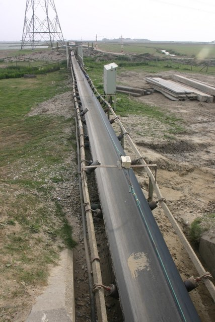 Conveyor Belt Takes raw material from the new gravel pit near Scotney Court to the gravel works.